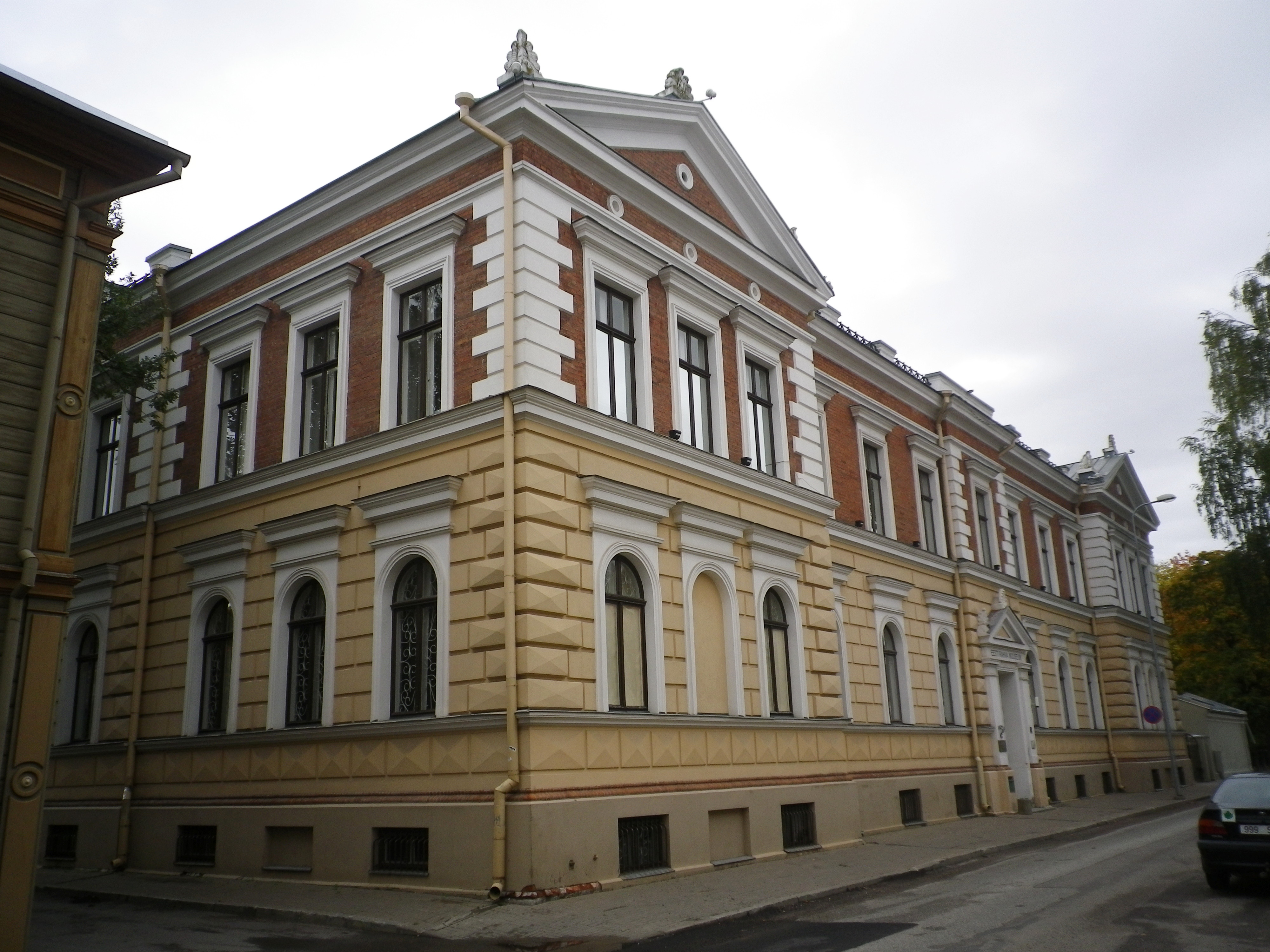 Main building of the Estonian National Museum, 32 Veski St, Tartu